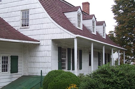 Dutch Colonial Farmhouse